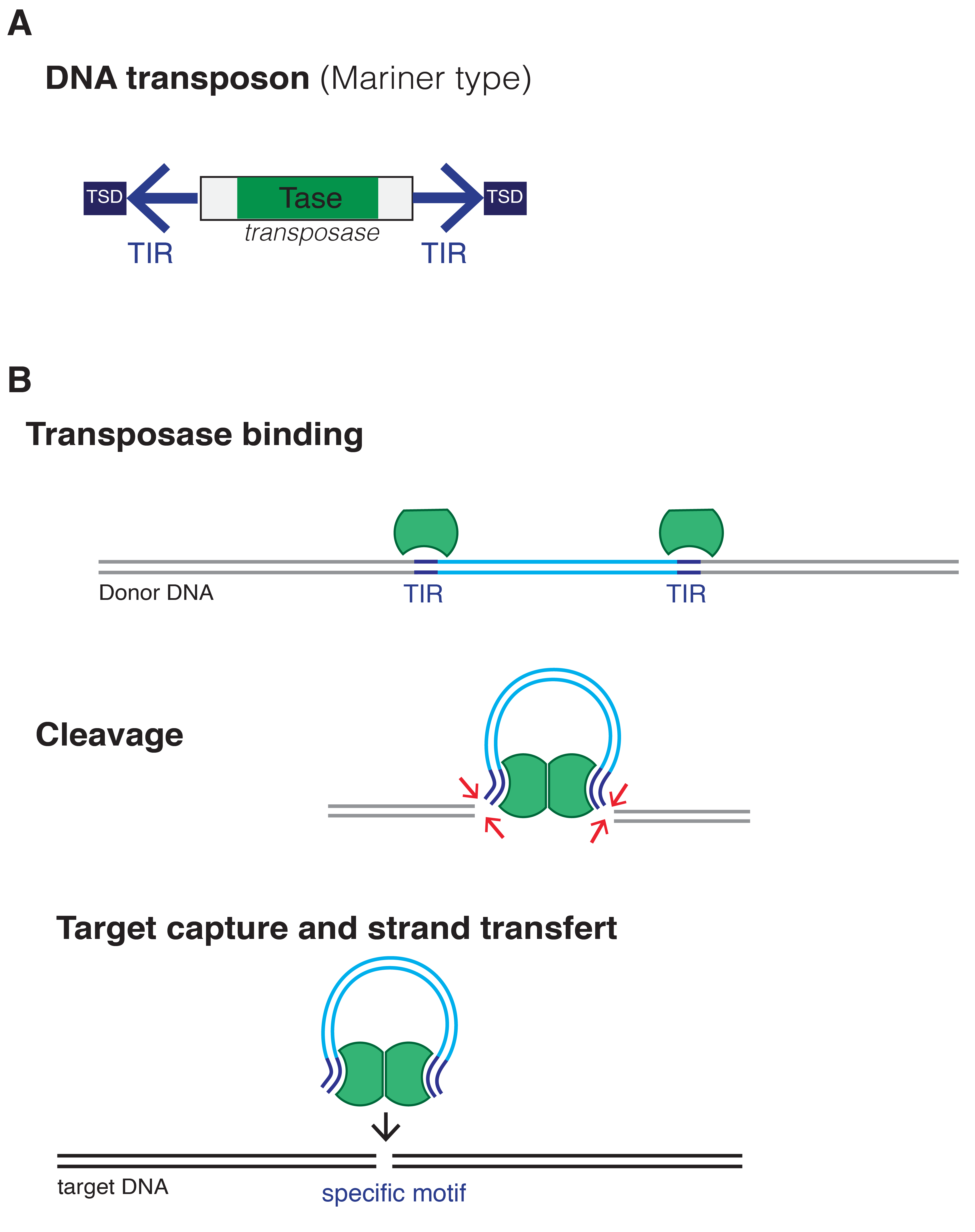 A.Structure of DNA transposons (Mariner type). Two inverted tandem repeats (TIR) flank the transposase gene. Two short tandem site duplications (TSD) are present on both sides of the insert. B. Mechanism of transposition: Two transposases recognize and bind to TIR sequences, join together and promote DNA double-strand cleavage. The DNA-transposase complex then inserts its DNA cargo at specific DNA motifs elsewhere in the genome, creating short TSDs upon integration.